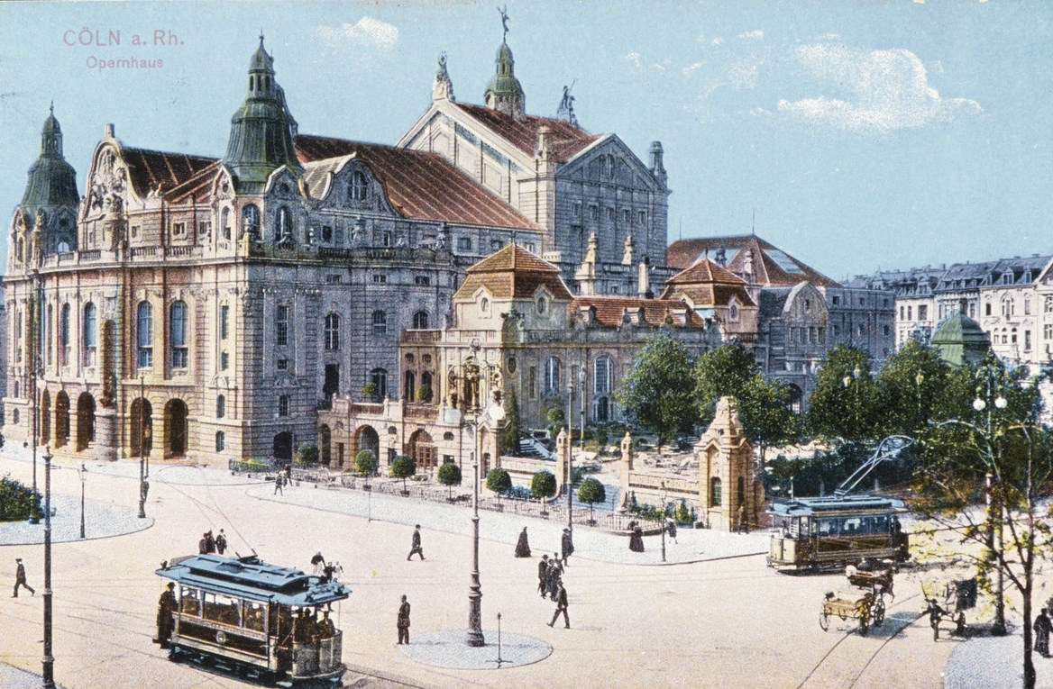 Rudolfplatz - Opernhaus, koloriert (Postkarte um 1910)